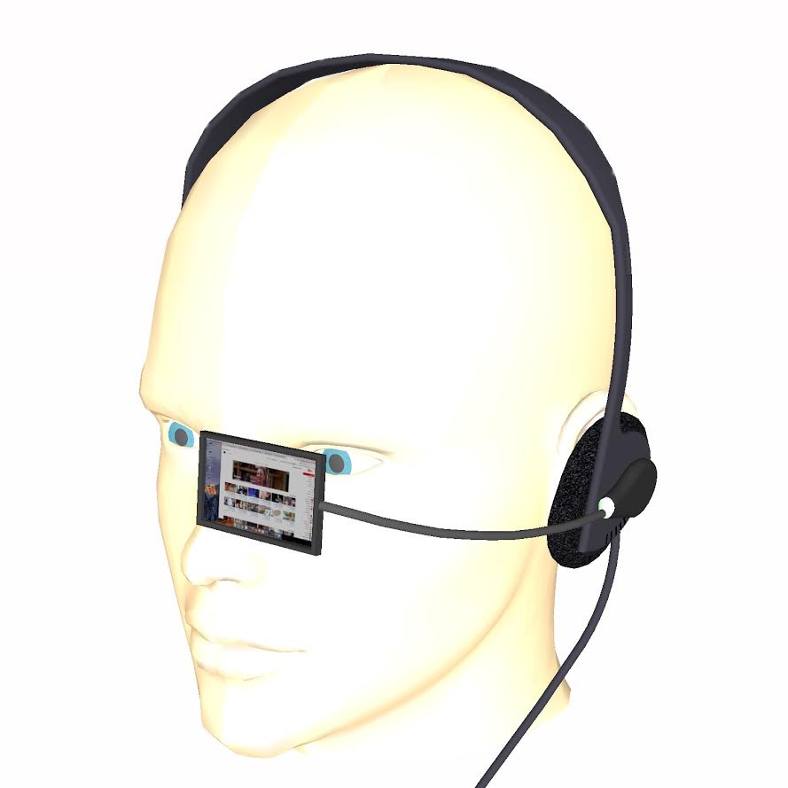 Computer headset